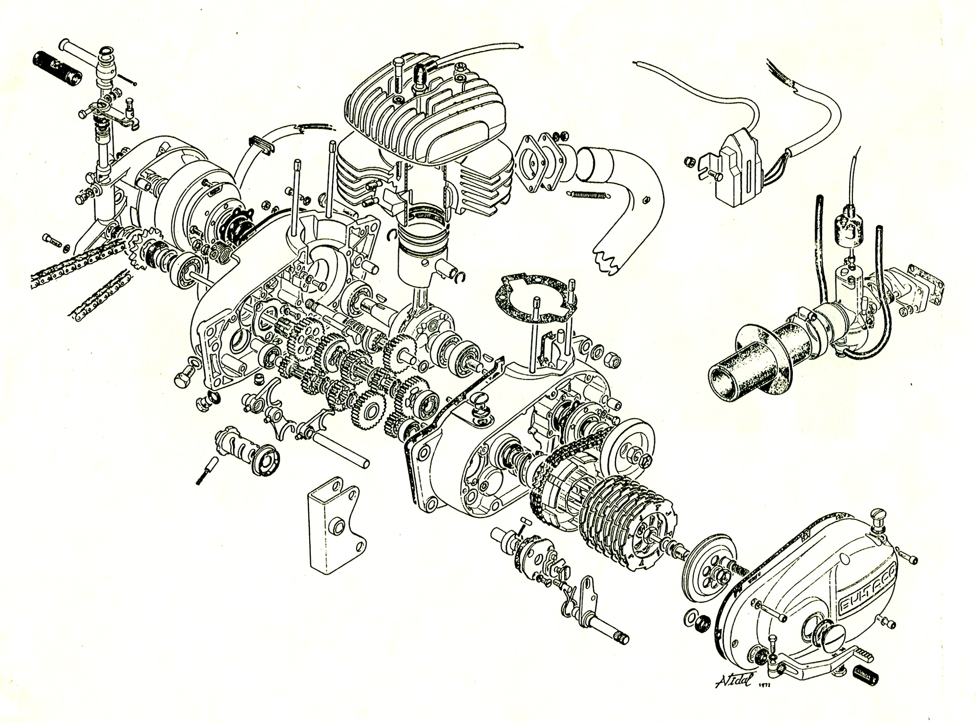 Bultaco engine exploded view scanned from an old Steve's Bultaco catalog.